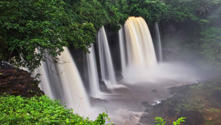 I have snapped the pix during our excursion